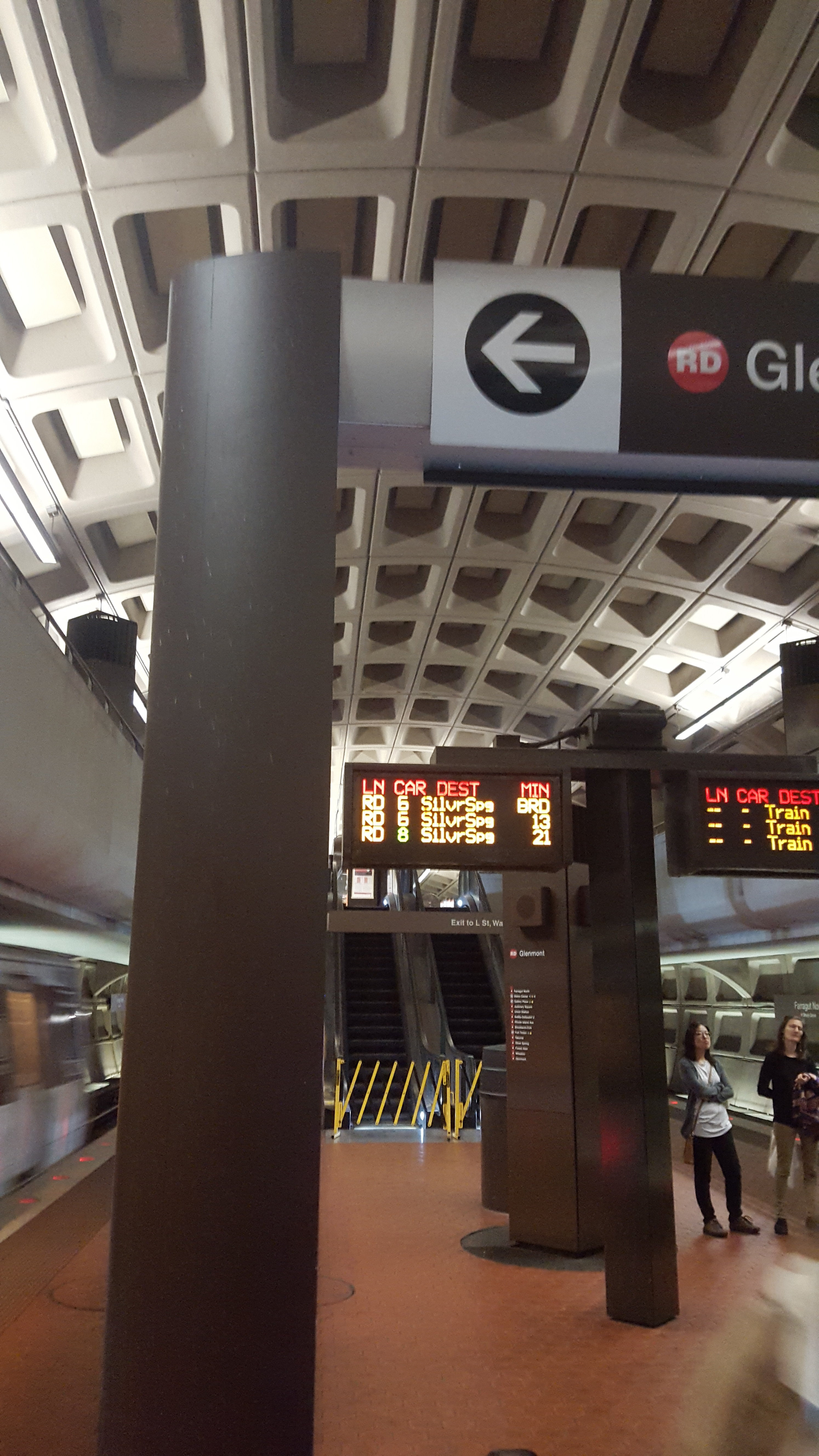 Farragut North station on Sunday, October 9, 2016